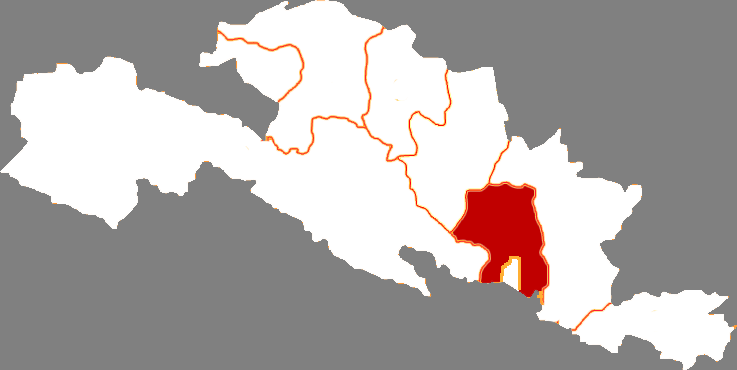 Location of Minle County in Zhangye city, China